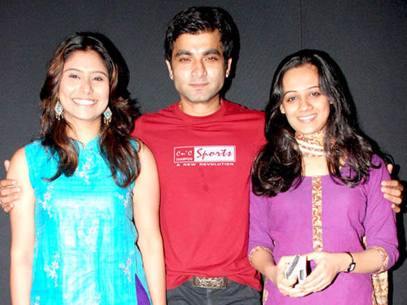 Actors (l-r) Pari Telang, Santosh Juvekar and Spruha Joshi at the event organized by Pratap Sarnaik to unveil India's 1st 3D documentary on Dahi Handi.